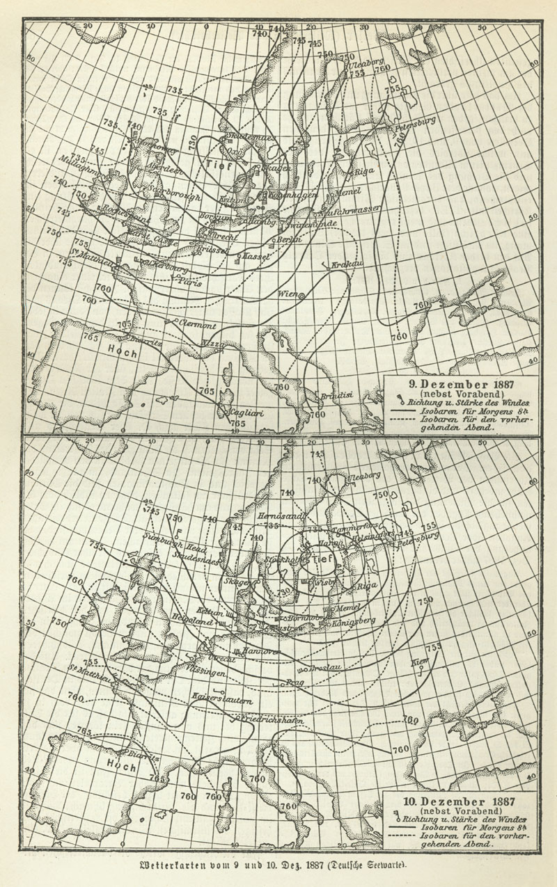 Weather map of Europe (09. & 10 December 1887)